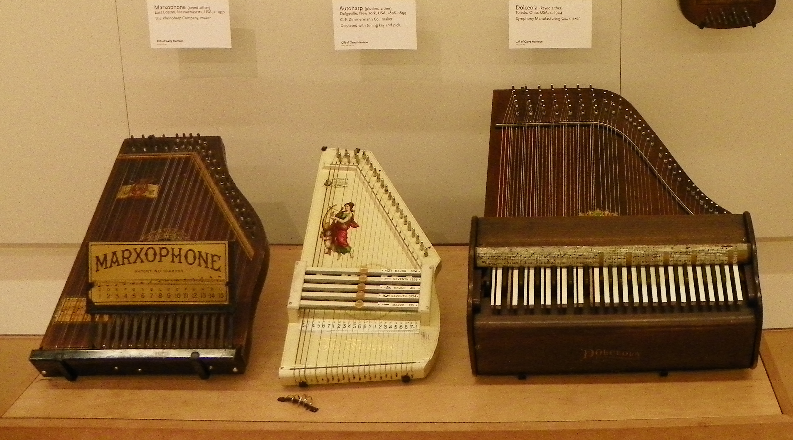 Photograph of musical instrument(s) taken at the Musical Instrument Museum (Phoenix) on 2011-04-26. left to right Marxophone (keyed zither) East Boston, Massachusetts, USA, c.1930 The Phonoharp Company, maker Autoharp (plucked zither) Dolgeville, New York, USA, 1896-1899 C.F. Zimmermann Co., maker Displayed with tuning key and picks Dolceola (keyed zither) Toledo, Ohio, USA, c.1904 Symphony Manufacturing Co., maker